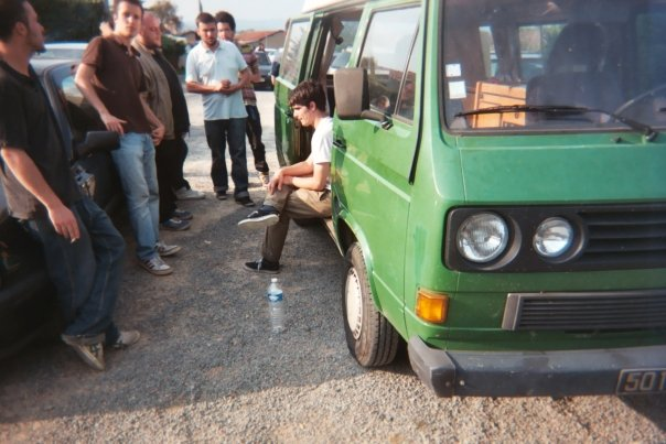 It's Pied la Biche